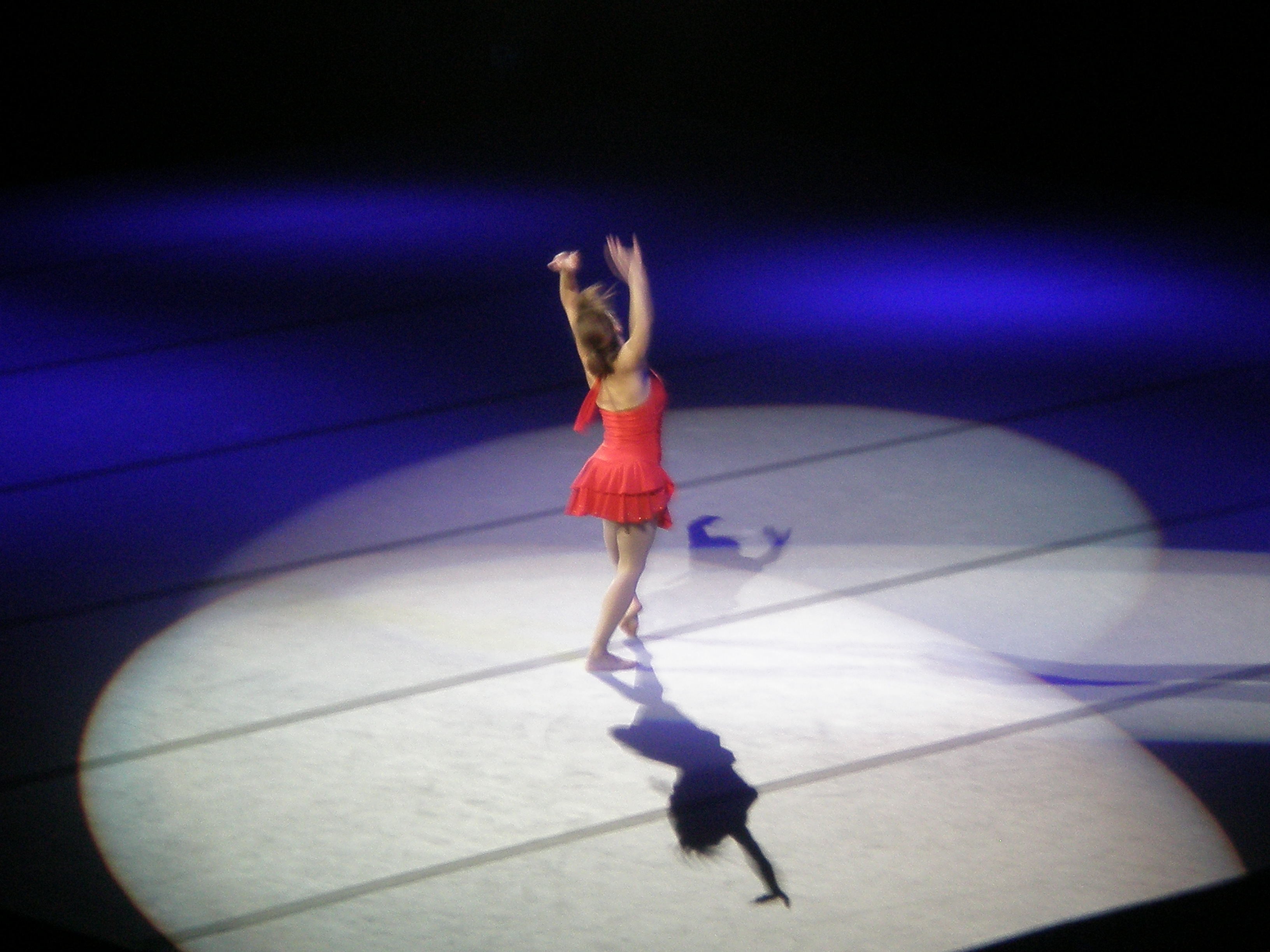 Shannon Miller performing at the 2008 Tour of Gymnastics Superstars in San Jose, California.